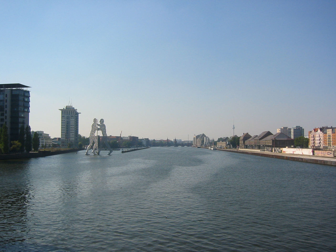 View from Elsenbrücke towards west, Berlin, Germany